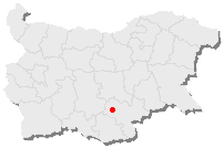 Map of Bulgaria, the red point is the position of Khaskovo.